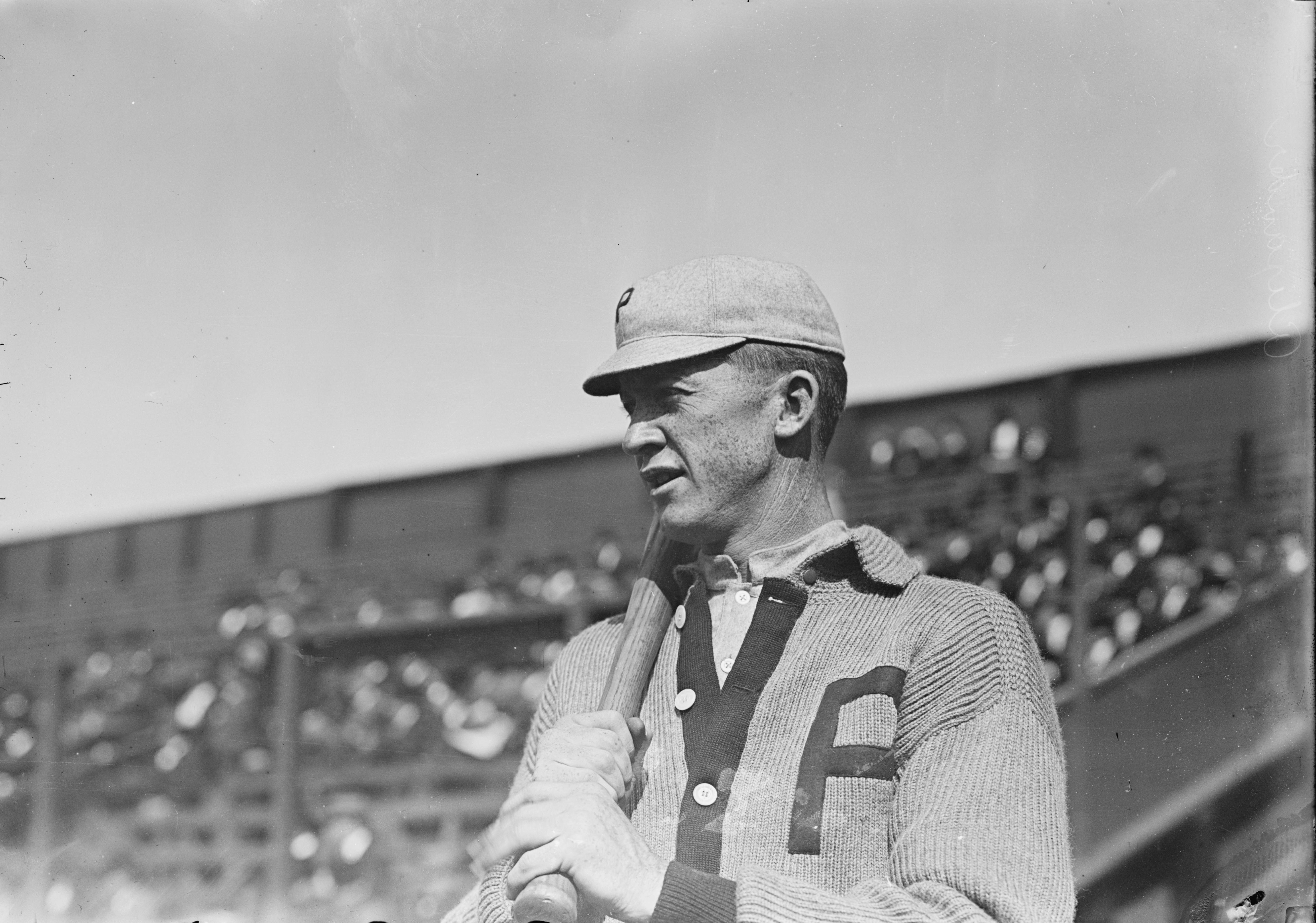 Grover Cleveland Alexander, Philadelphia, NL (baseball) Notes: Original data provided by the Bain News Service on the negatives or caption cards: Alexander, Phila. Corrected title and date based on research by the Pictorial History Committee, Society for American Baseball Research, 2006.